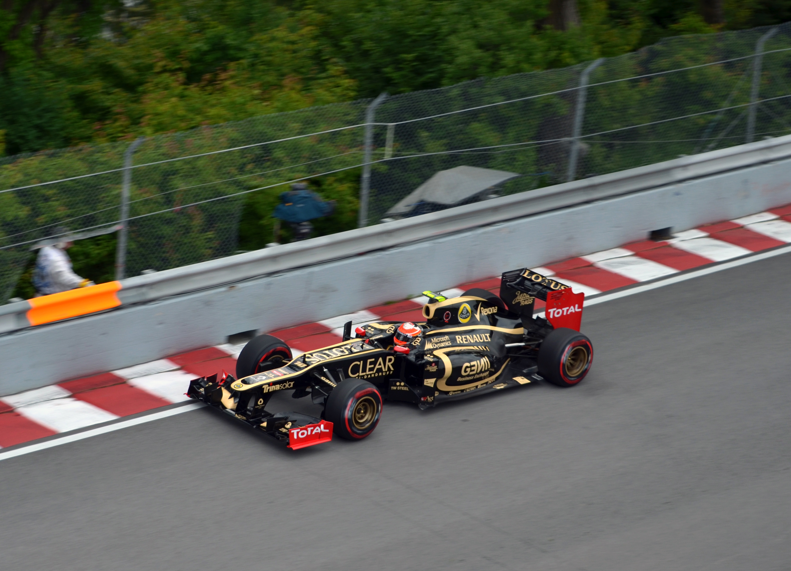 Romain Grosjean in the Lotus - Renault E20 exits turn 9 at Circuit Gilles Villeneuve during first practice for the 2012 Canadian Grand Prix